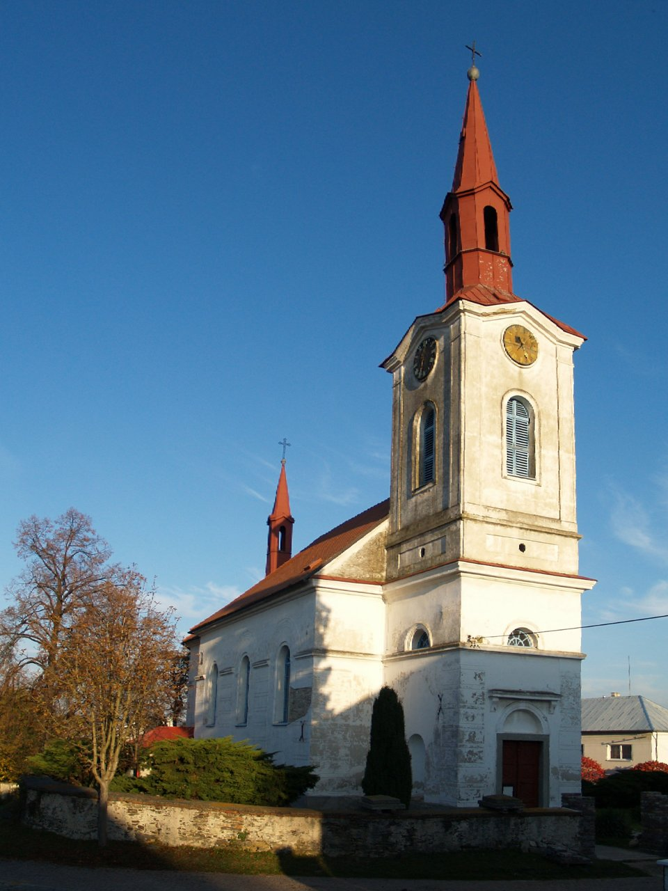 Church of All Saints, Vrdy - Dolni Bucice, Czech Republic